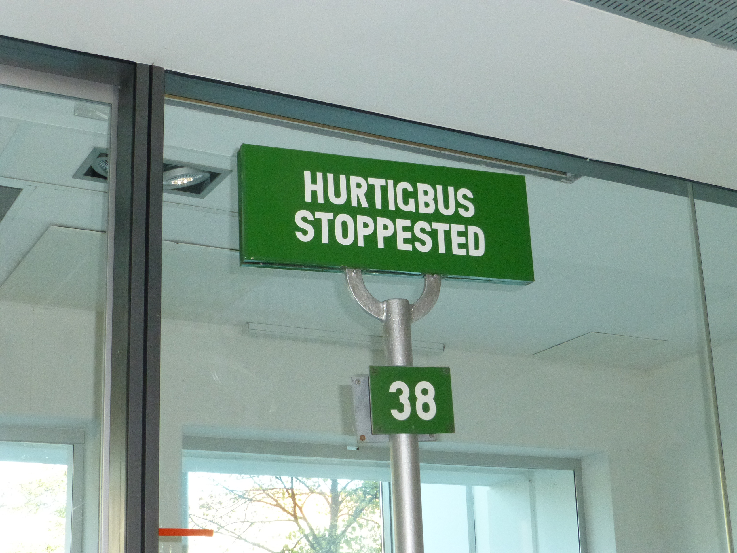 Movia head office at Toftegårds Plads in Copenhagen. Old bus stop for hurtigbusser (fast buses) from 1954.